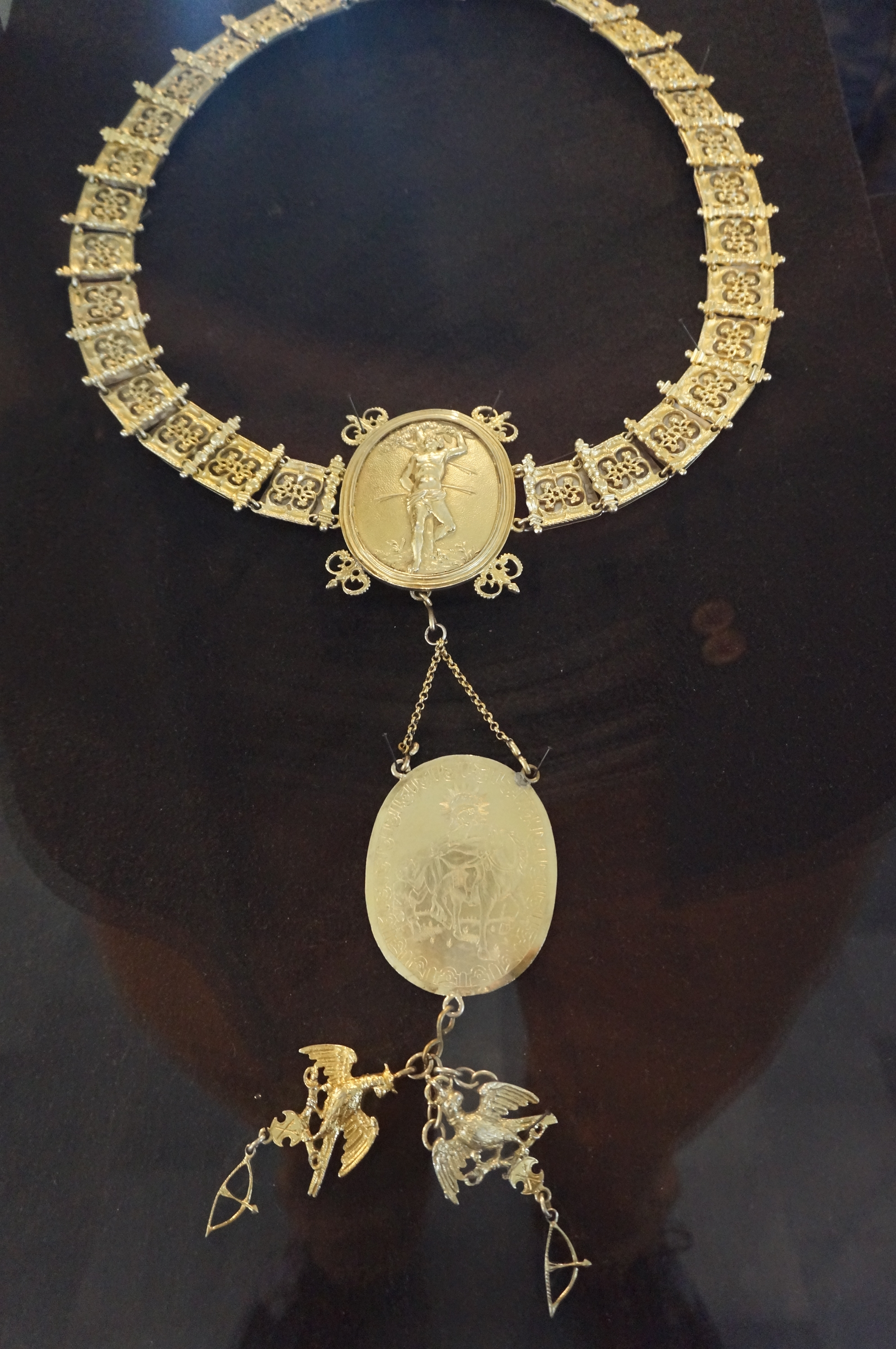 Necklace of the St. Sebastian Guild from Keerbergen